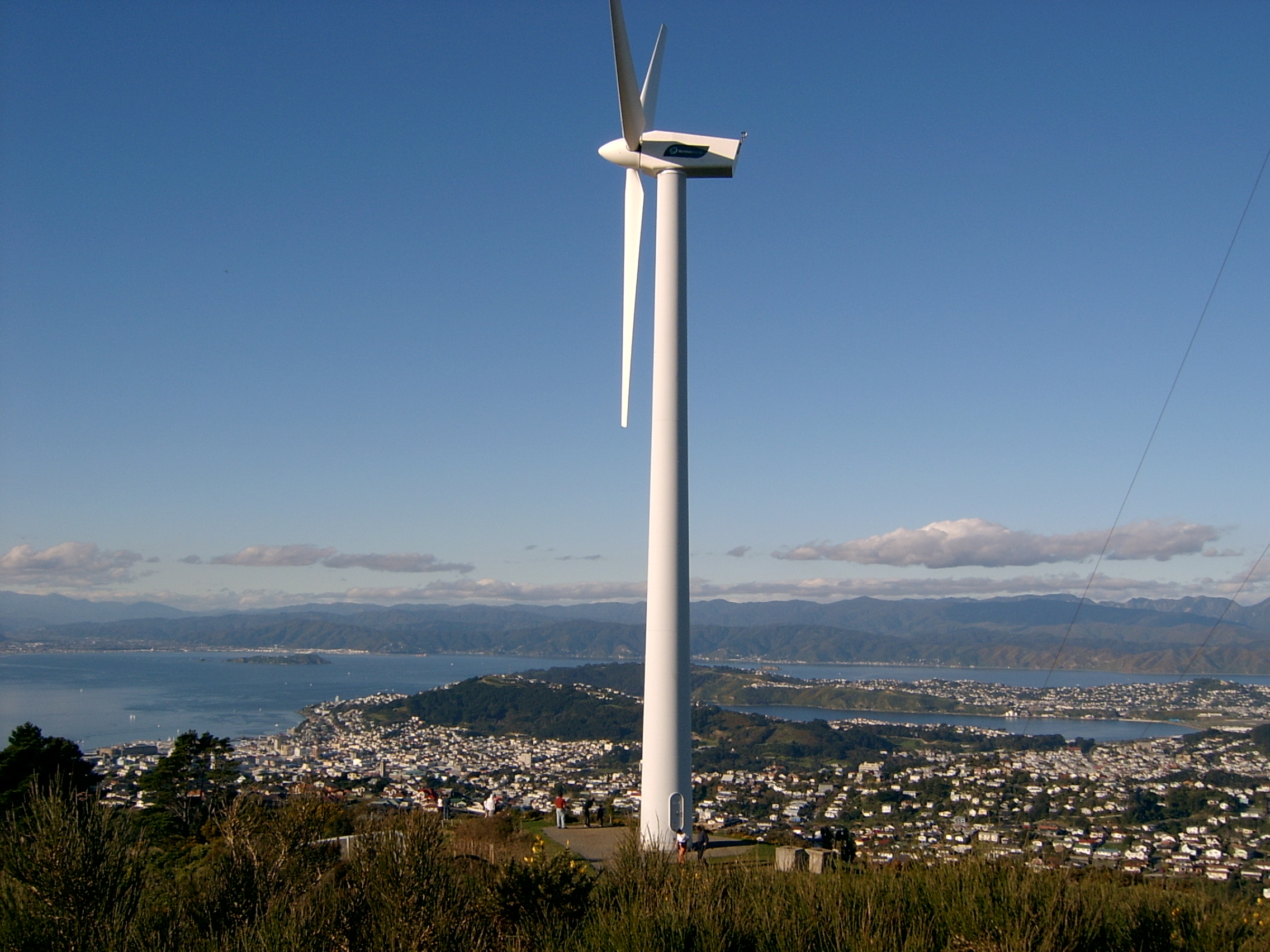 Brooklyn wind turbine, Wellington harbour in the background.